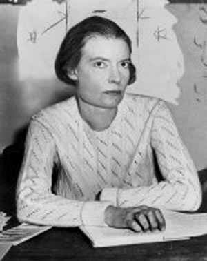 Dorothy Day half-length portrait, seated at desk, facing right